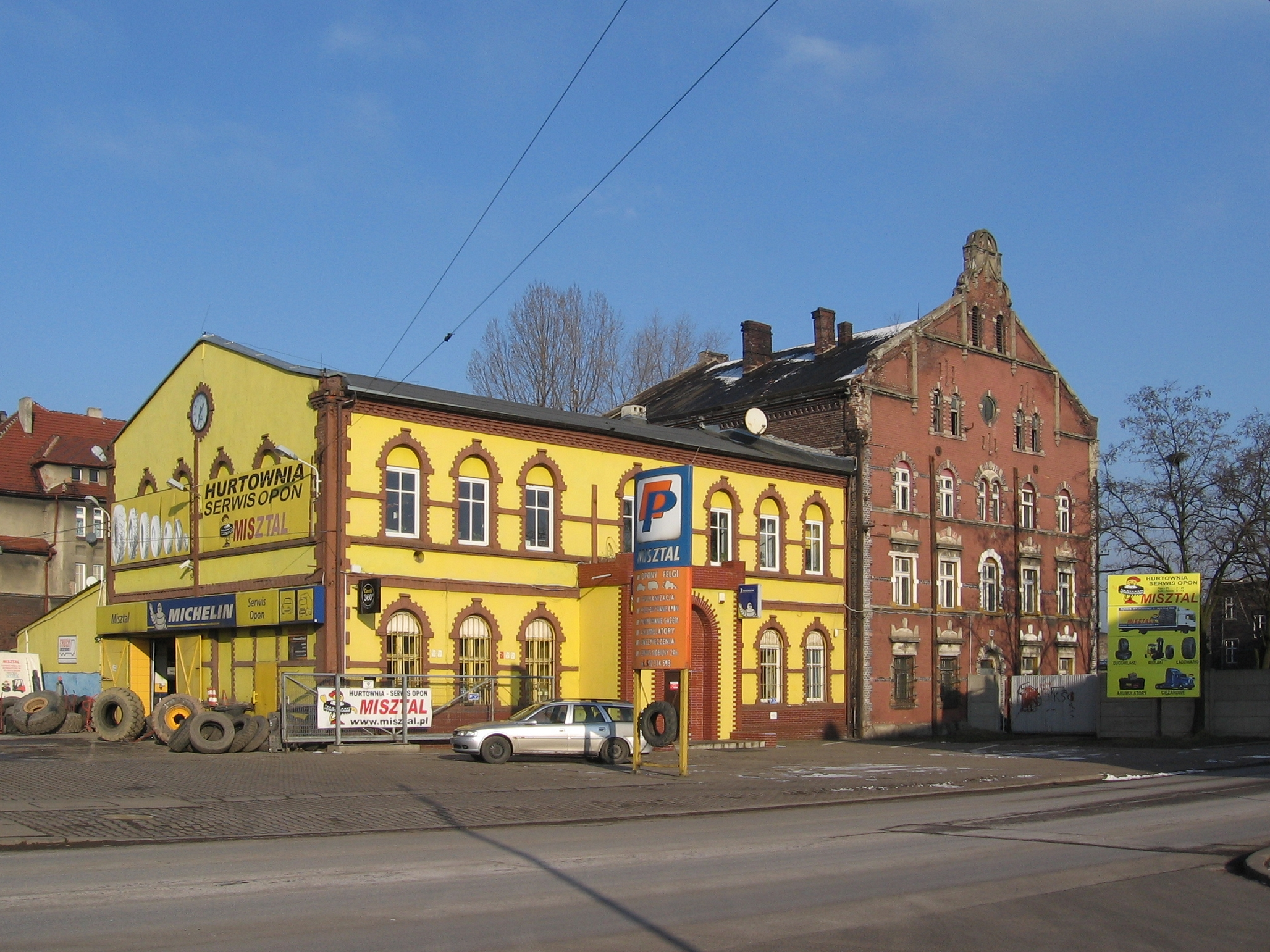 building in Świętochłowice-Lipiny, 114-112 Chorzowska Street, former former baths of Silesia Zinc Works (taller part), now Misztal tire wholesale